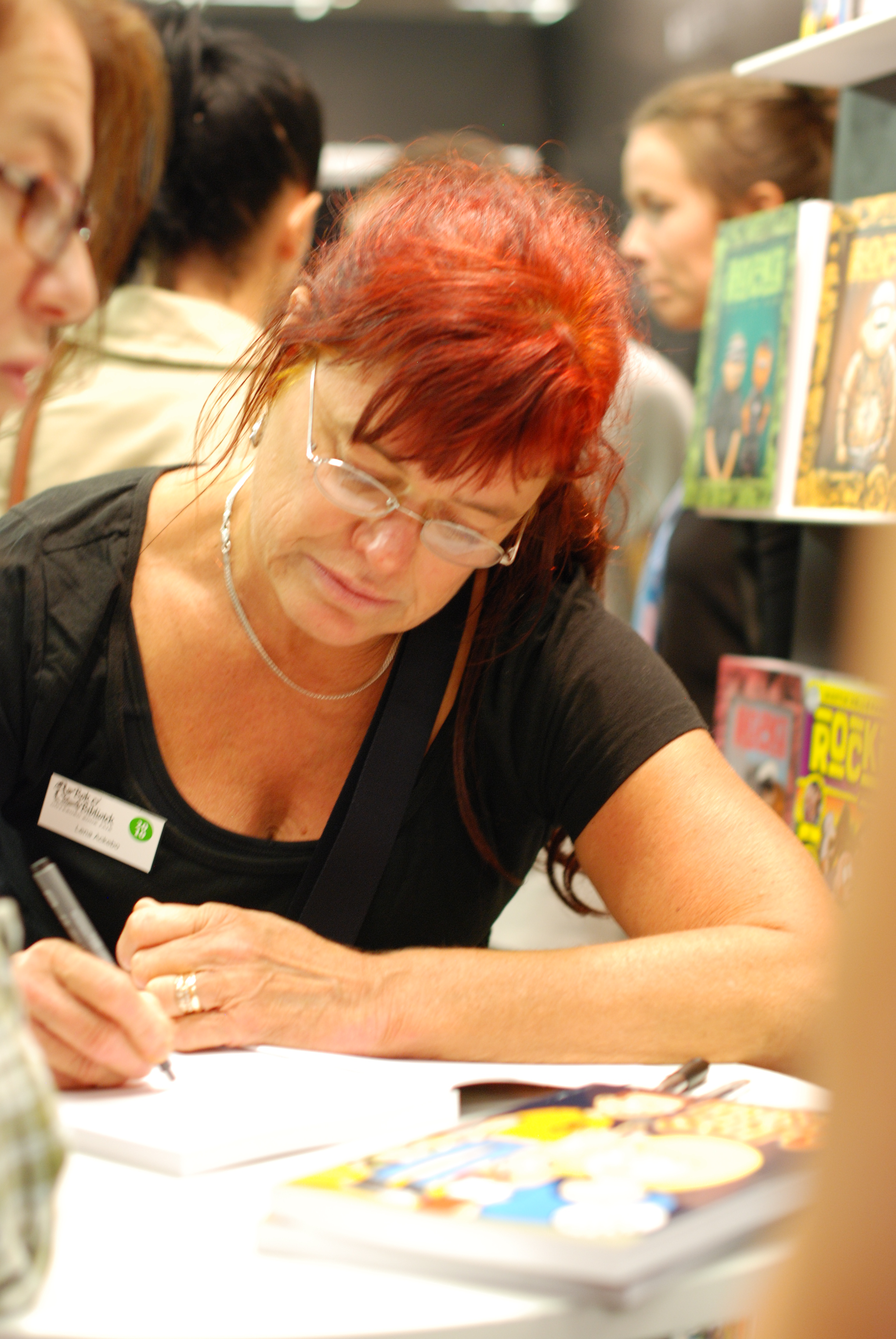 Swedish cartoonist Lena Ackebo at the Göteborg Book Fair 2010